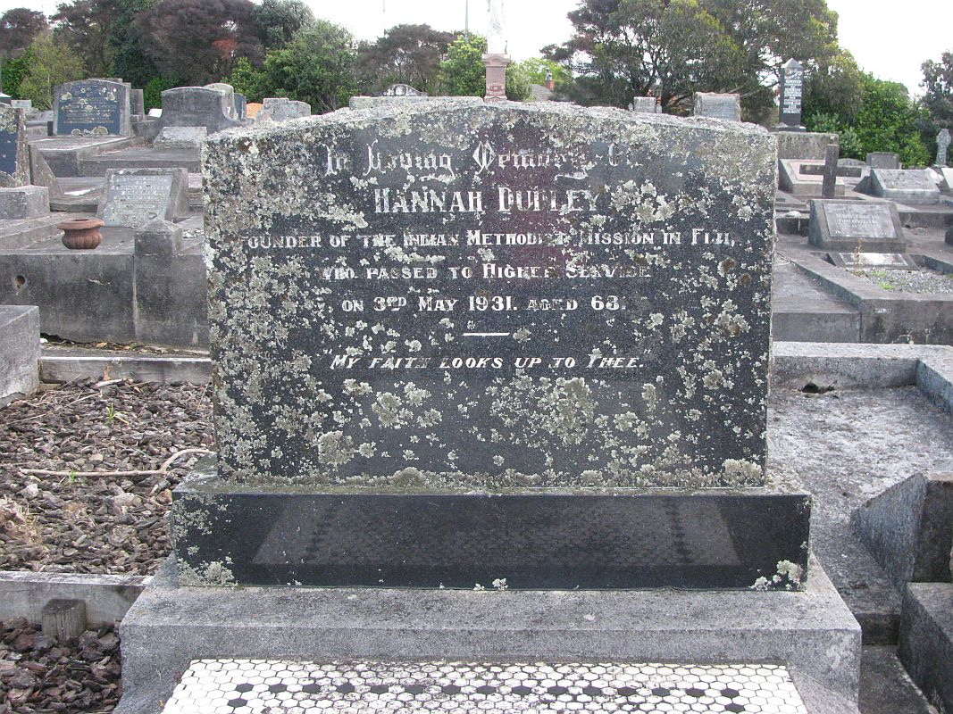 Headstone of Hannah Dudley